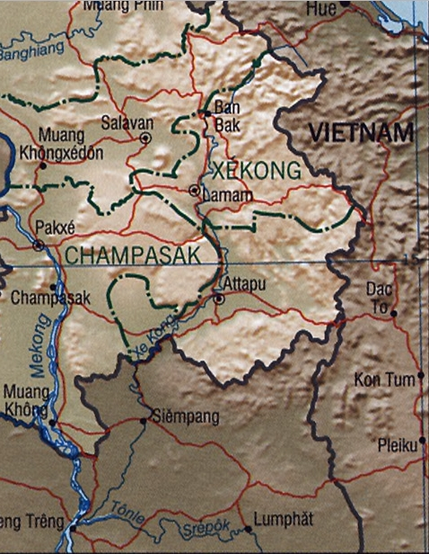 Sekong river, a tributary of Mekong, in Central Vietnam, South Laos and Northeast Cambodia